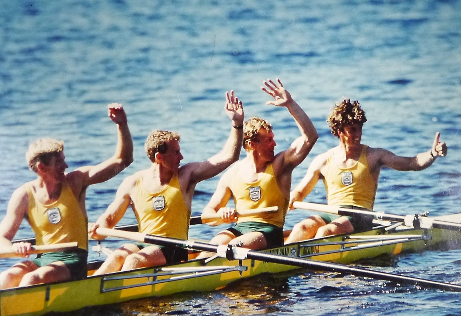 Note that date given is that of the upload, and not when the photo was taken, as the person in seat 3 is Samuel Patten who won gold at the 1990 World Champs.